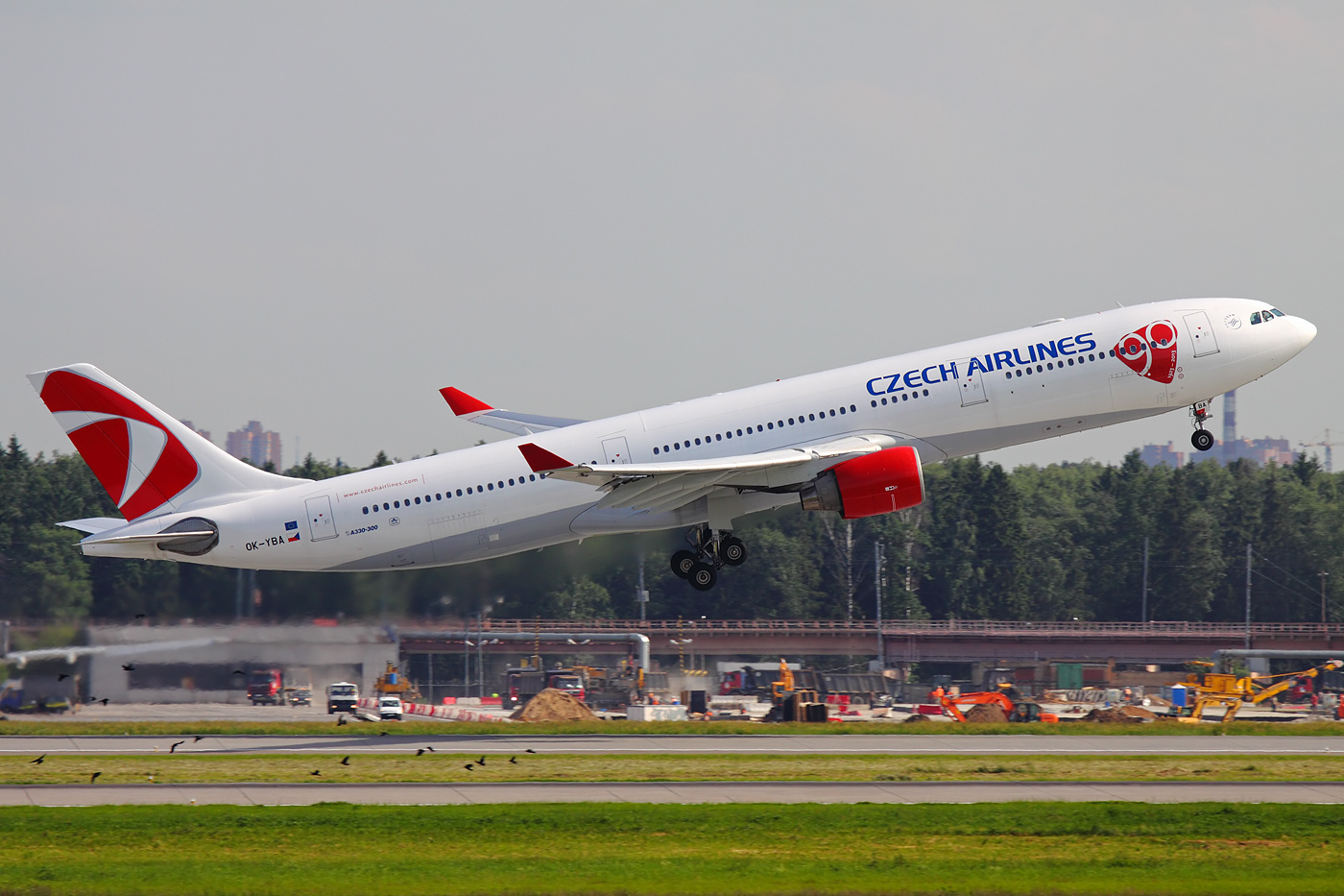 CSA Airbus A330-323 taking off at Sheremetyevo